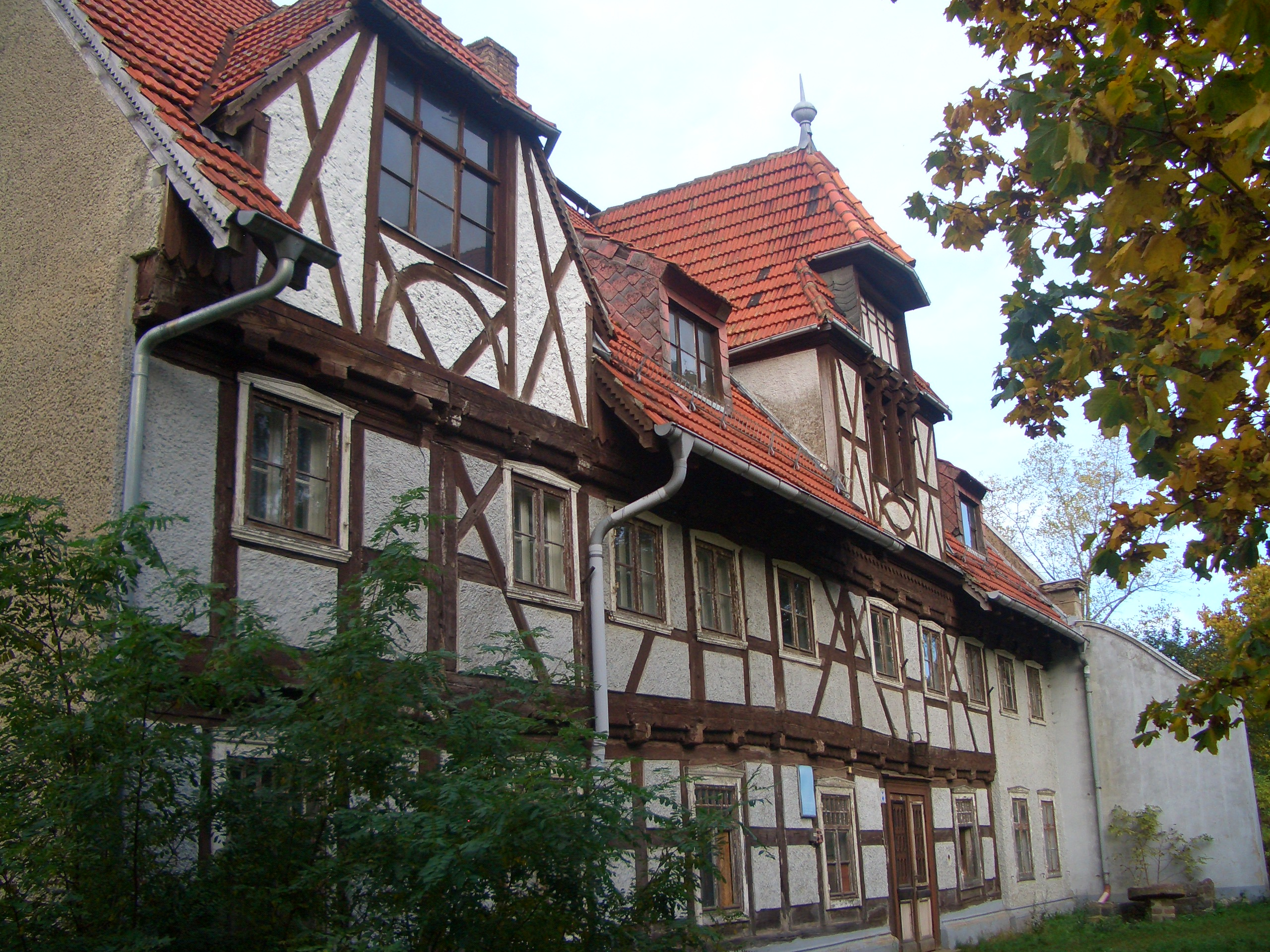 Gutshaus von Pessin, farm house of Pessin (Germany)